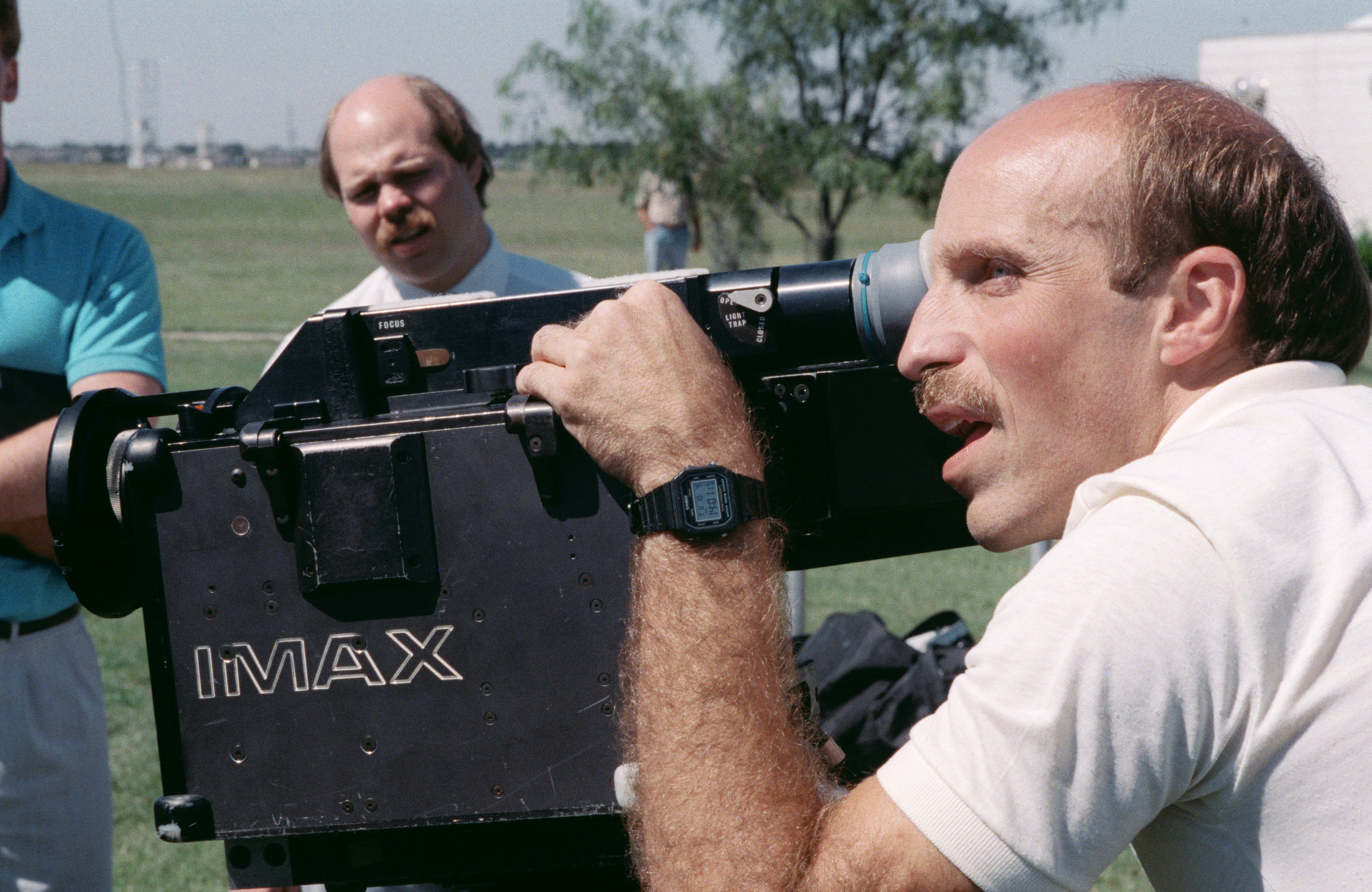 James P. Bagian, STS-29 mission specialist, gets in some training in 1988 on the operation of one of the IMAX cameras for his flight aboard Discovery. Image Credit: NASA